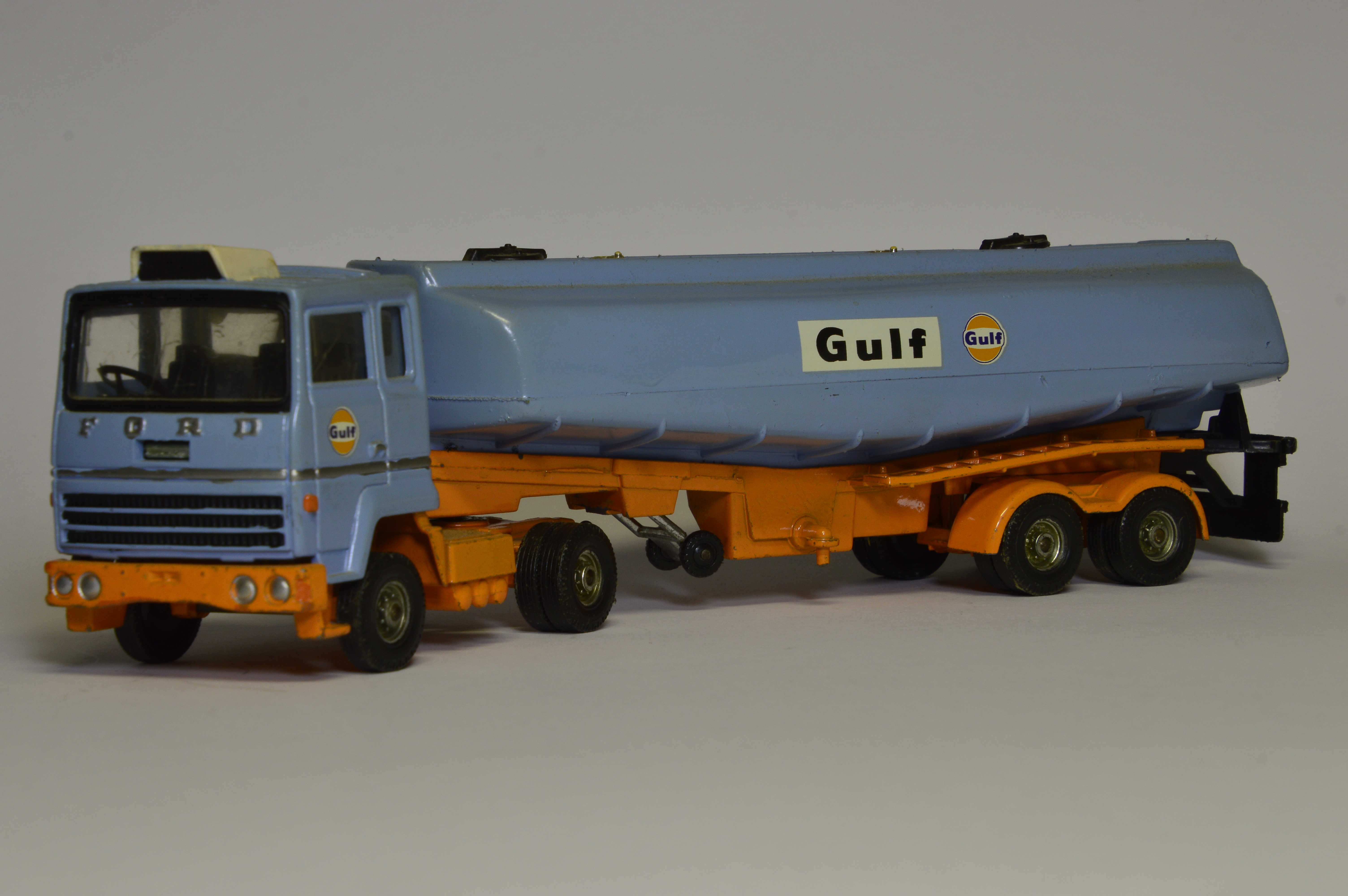 Corgi Toys die-cast tank truck (No. 1160) Ford Transcontinental from 1976. The Gulf Oil Company existed until 1985.